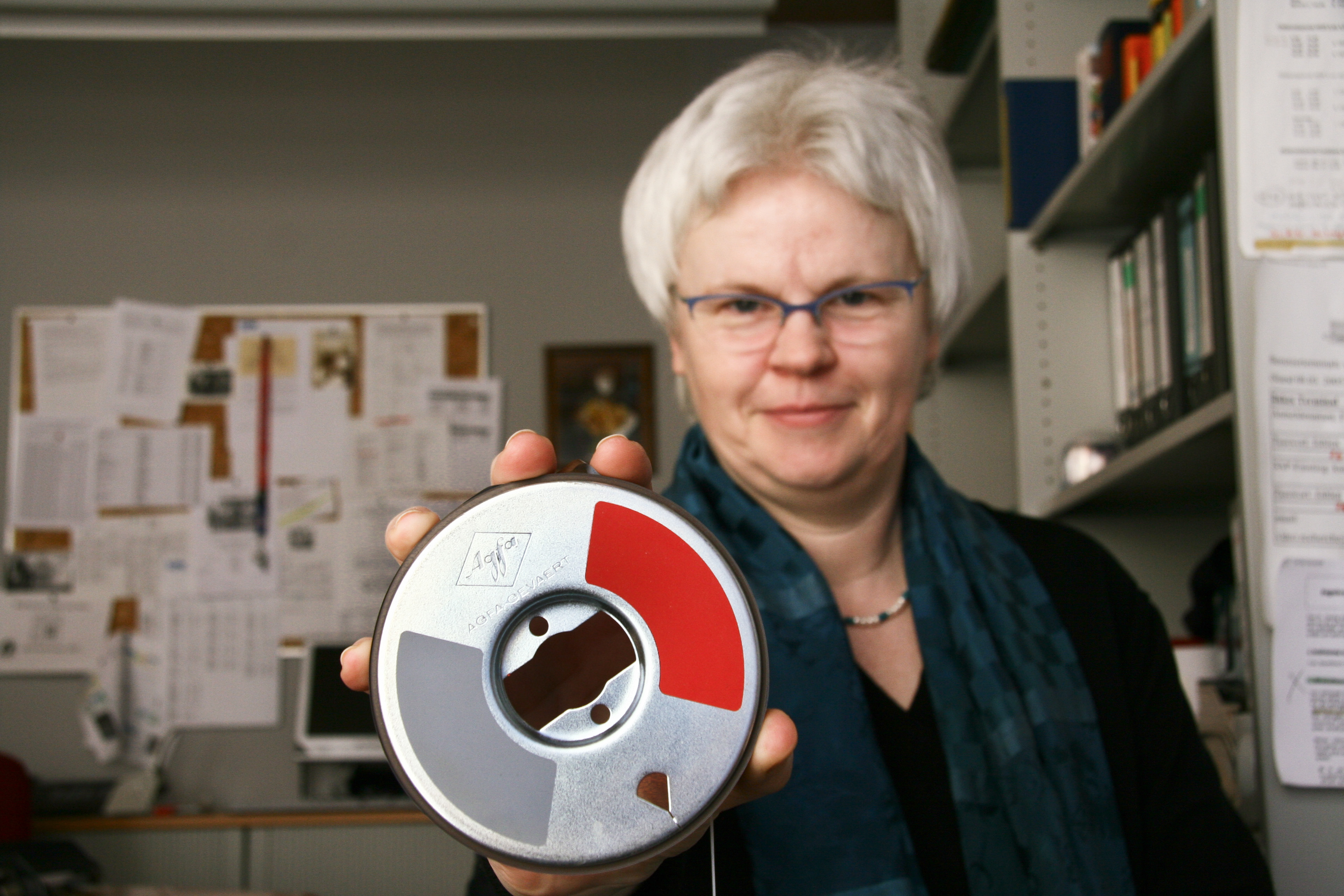 The German Public Radio Archivist Klaudia Wilde shows a professional broadcast tape as it was used until ca. 2000, when the era of analog audio ended.